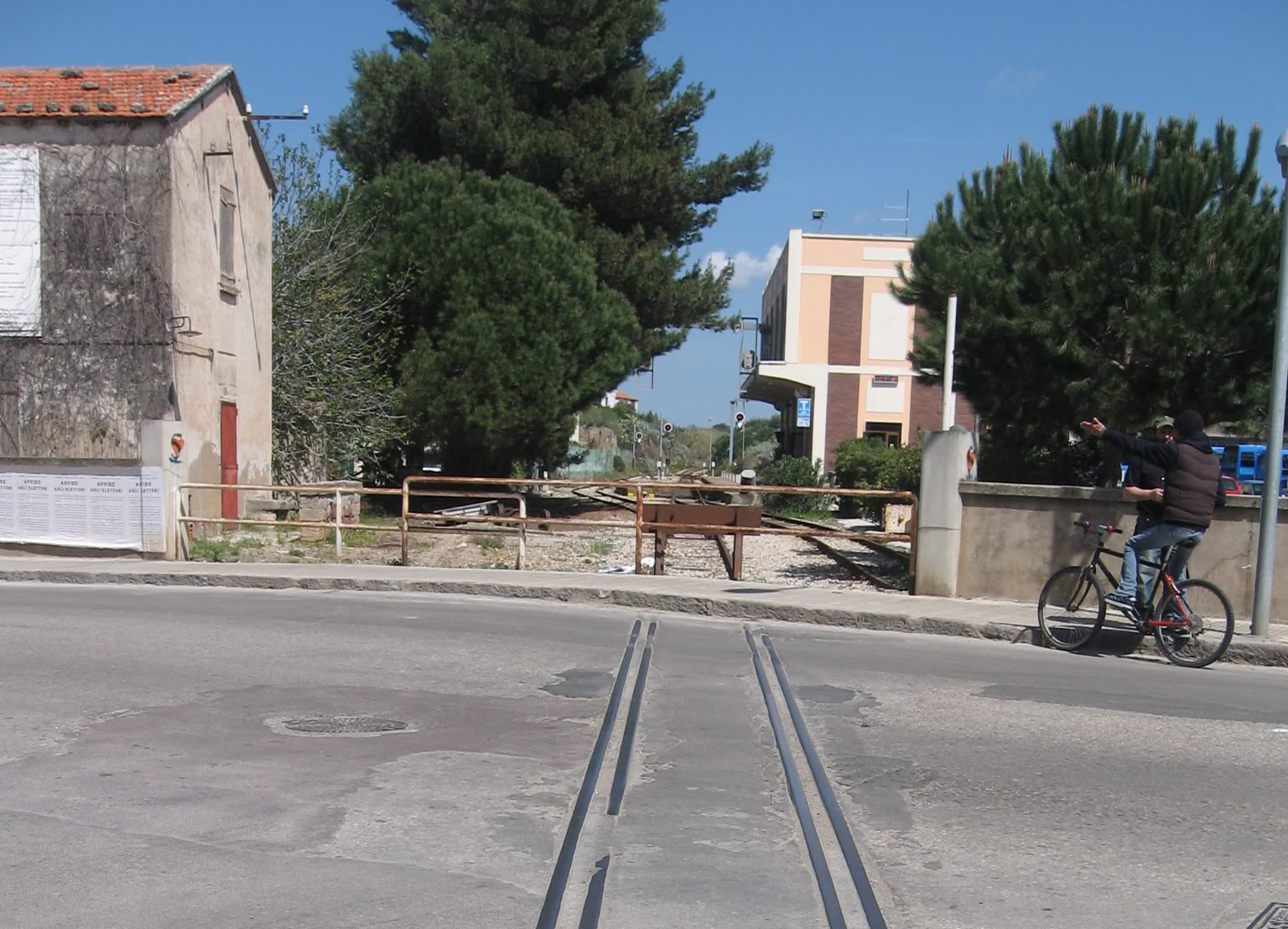 The Alghero railway station, with the tracks that until 1988 reached the touristic harbour of the city